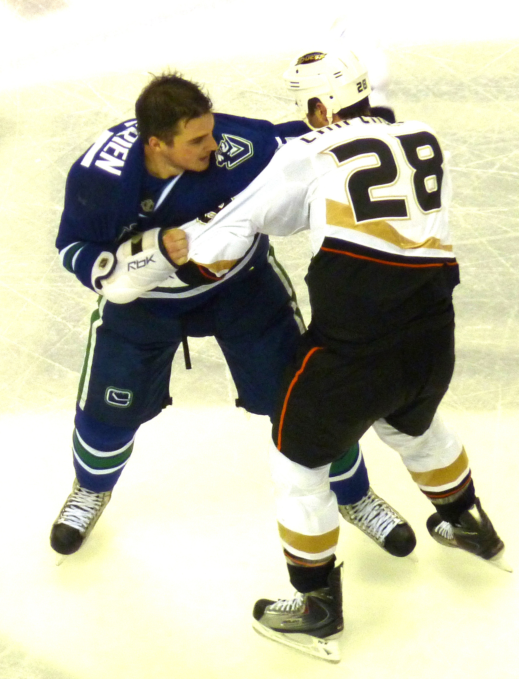 Vancouver Canucks defenceman Shane O'Brien and Anaheim Ducks forward Kyle Chipchura fight during a game on December 16, 2009.